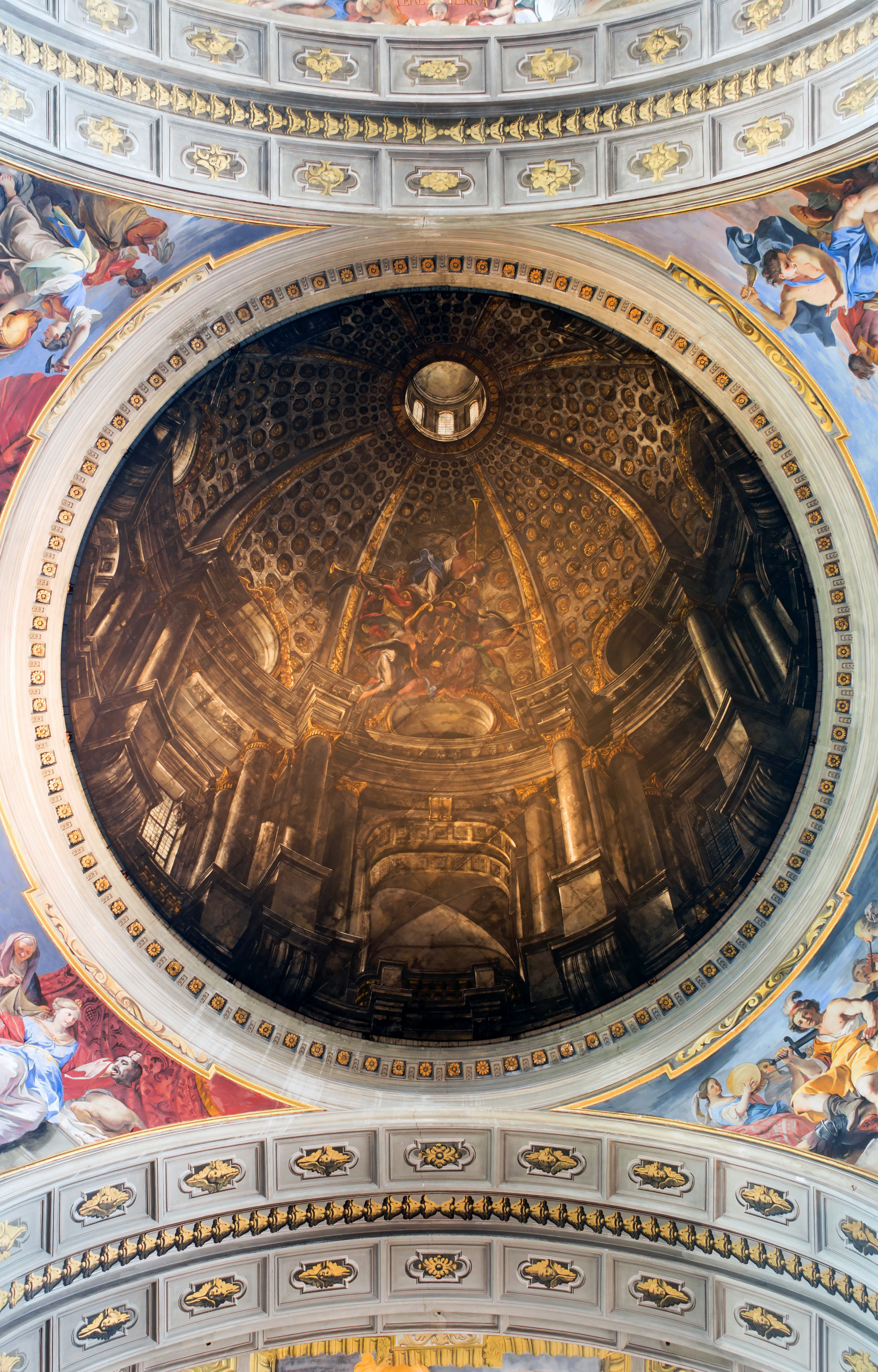 The "False" dome of Sant'Ignazio (Rome)